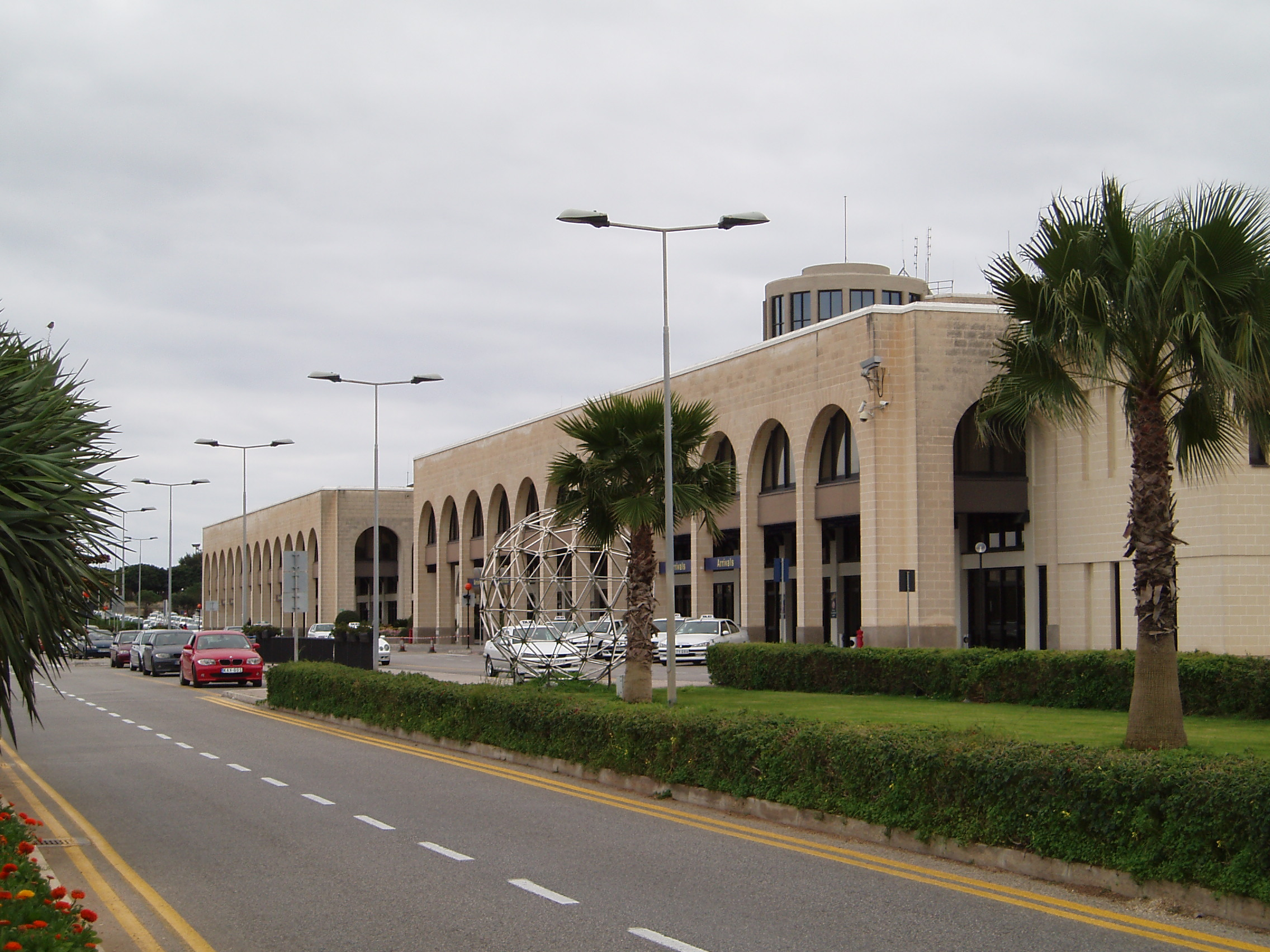 View of the Malta International Airport, with the arrivals lounge to the right of the picture.